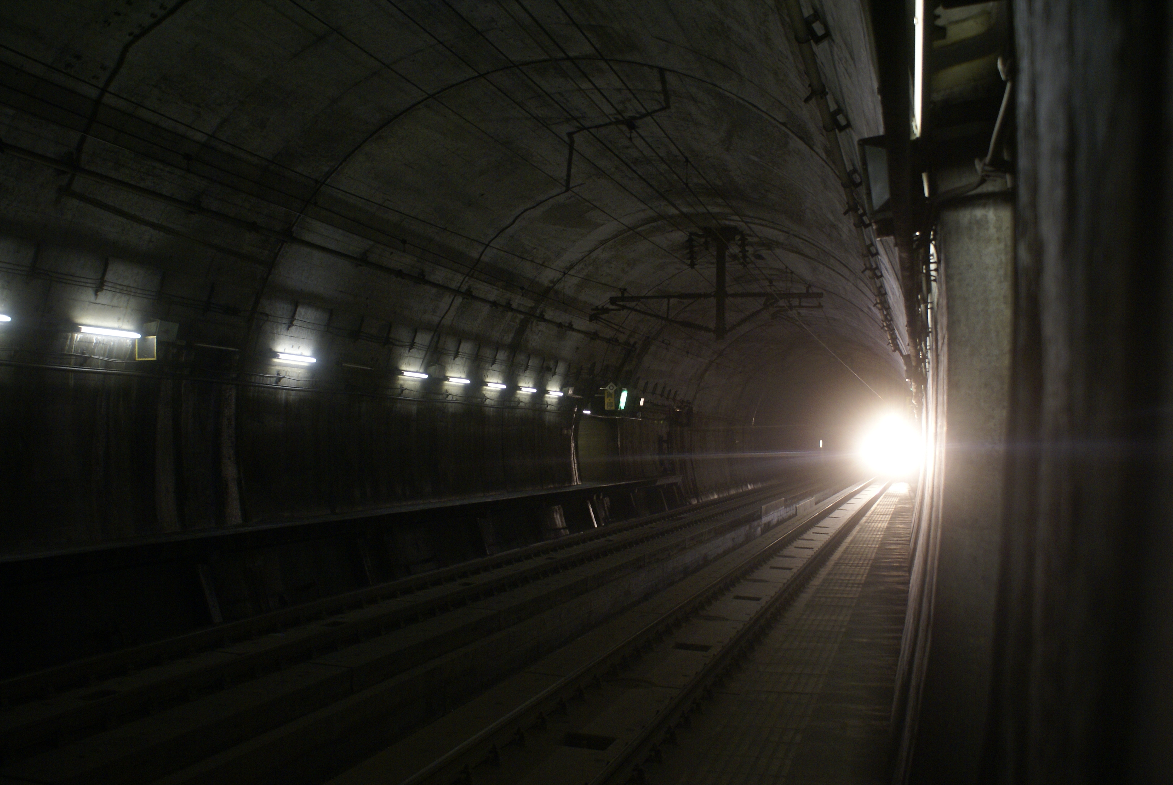 Train arriving to Tappi-kaitei Station inside Seikan Tunnel.